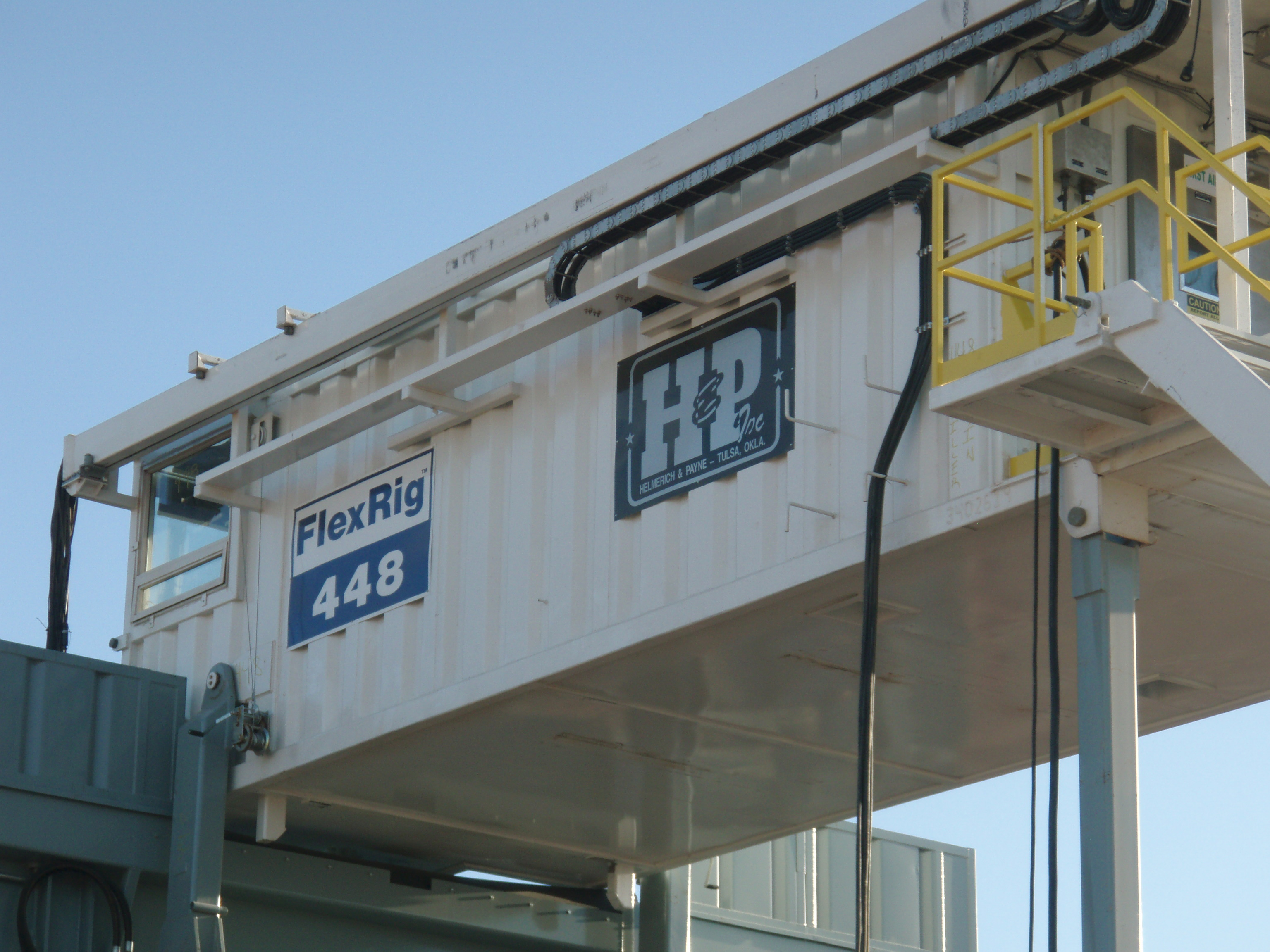 New insulated Dog House at the 448 in the Bakken North Dakota